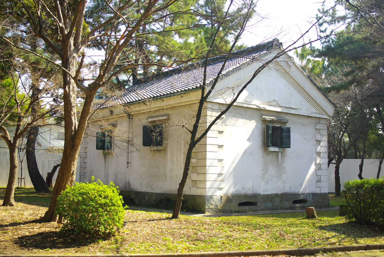 Nogi Warehouse in the Fukaimaru, formerly Ofukemaru, of Nagoya Castle.